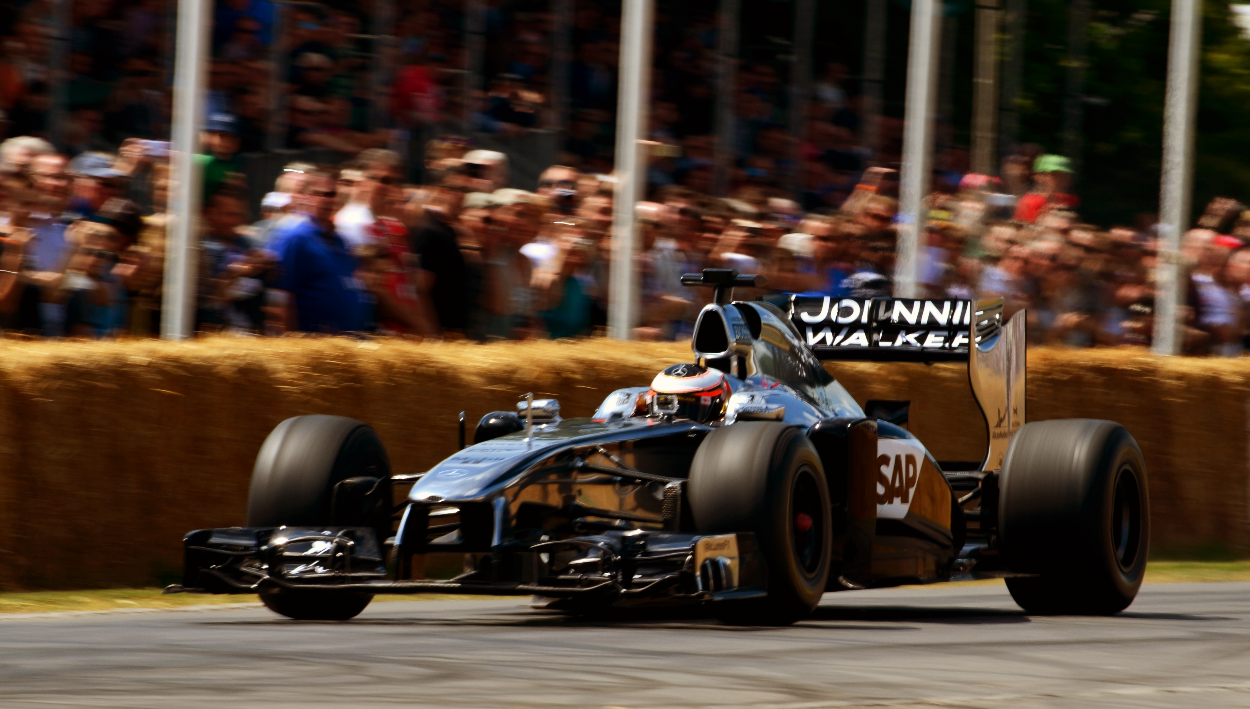 The 2011 McLaren MP4-26 (in 2014 McLaren livery) driven by Stoffel Vandoorne at the 2014 Goodwood Festival of Speed.